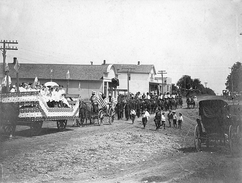 Fourth of July parade in Alta Vista, Kansas. William F. Kahle is seen hauling a large log behind the Royal Neighbors and Modern Woodmen of America float.